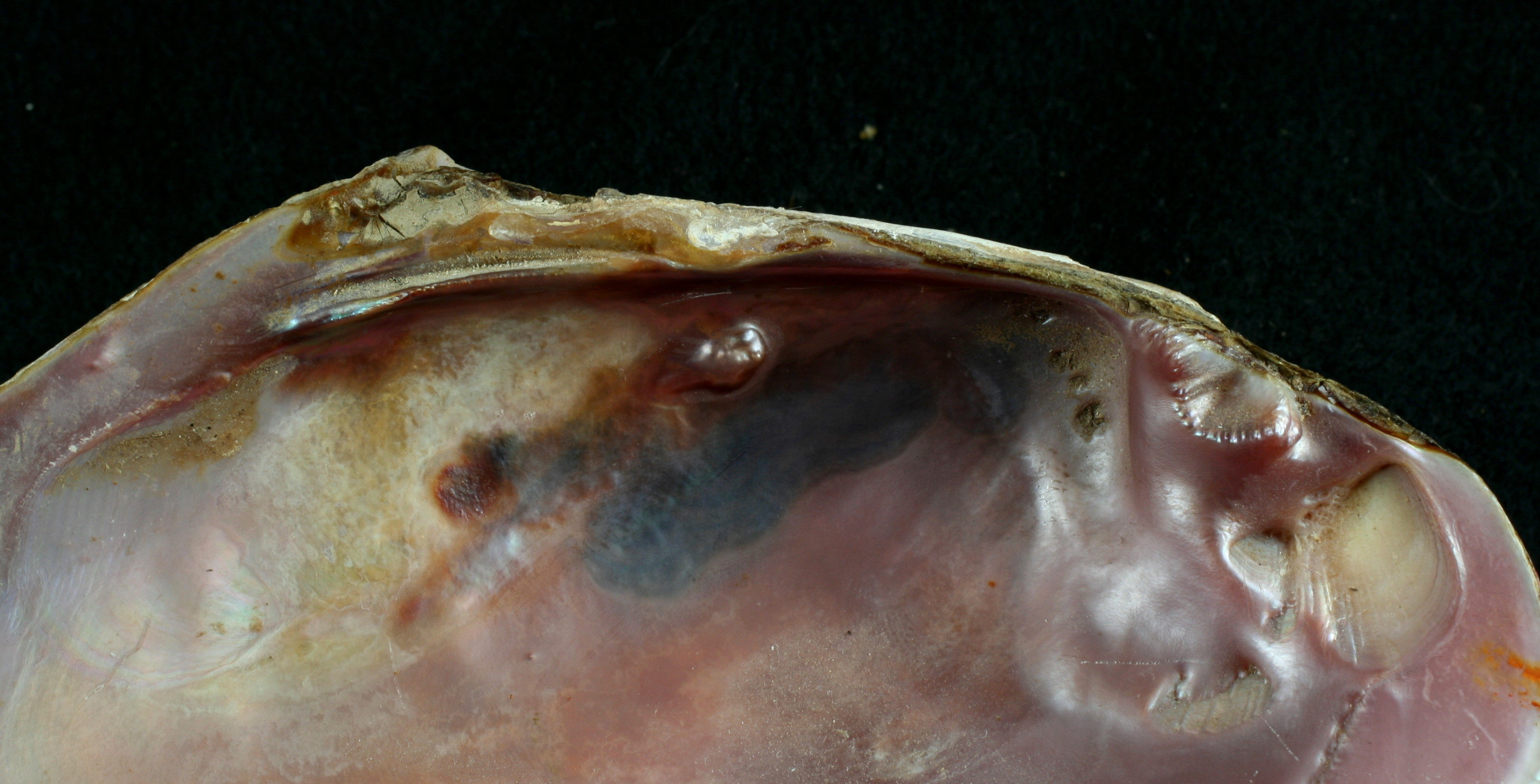 Unionidae close up schizodont hinge